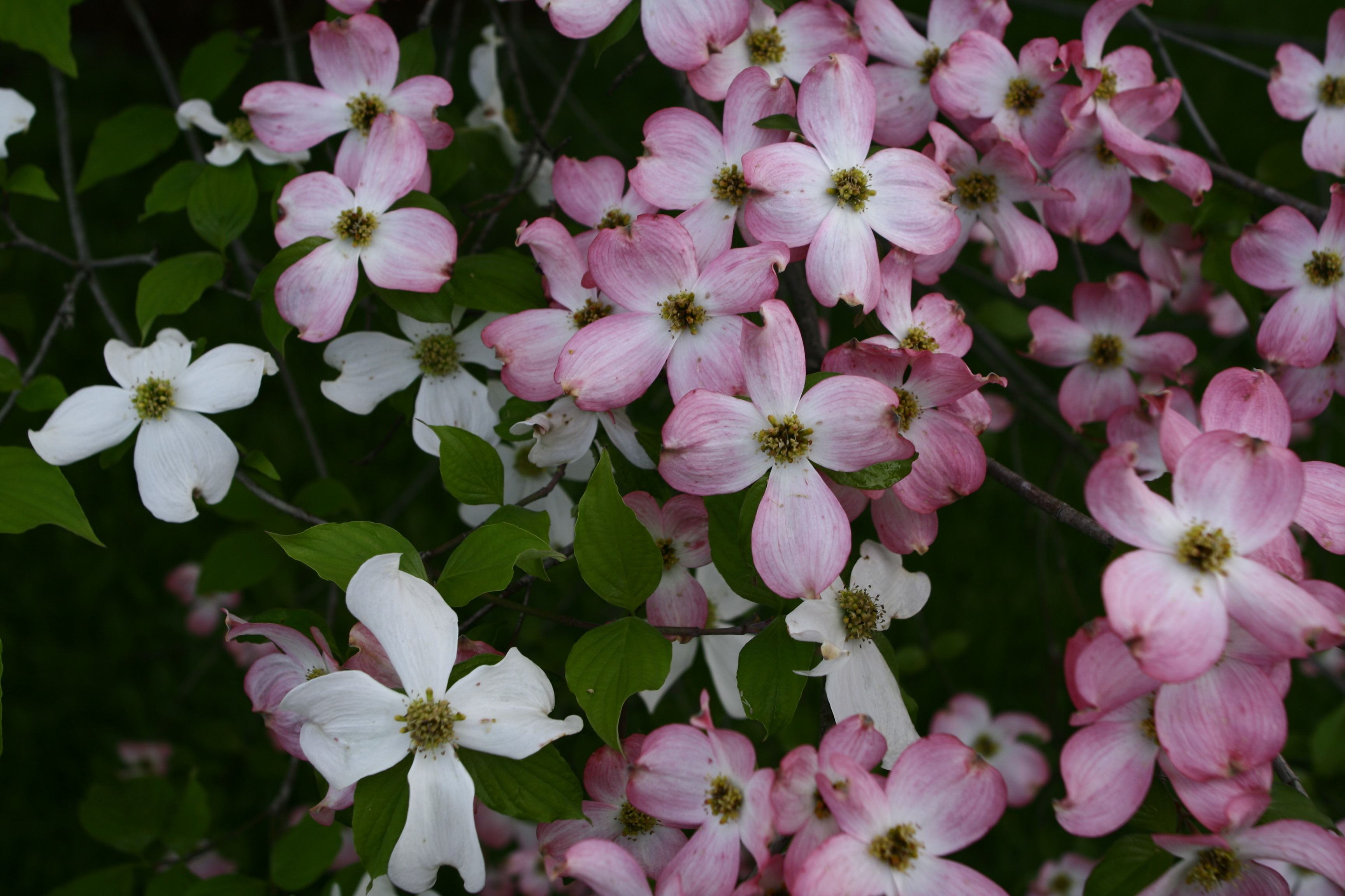 Hybrid White Pink Dogwood Flowers